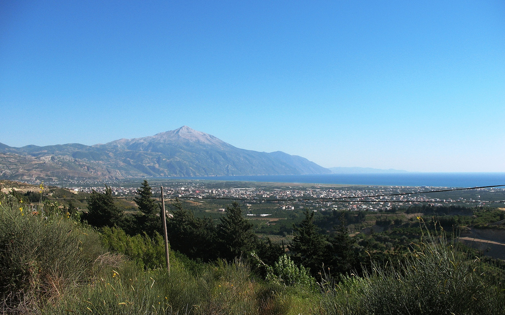 A view of Mount Aqraa (Mount Casius) — in summer 2008 on the Syrian-Turkish border, and Mediterranean Sea. Native flora is in the Eastern Mediterranean conifer-sclerophyllous-broadleaf forests ecoregion,of the Mediterranean forests, woodlands, and scrub Biome.